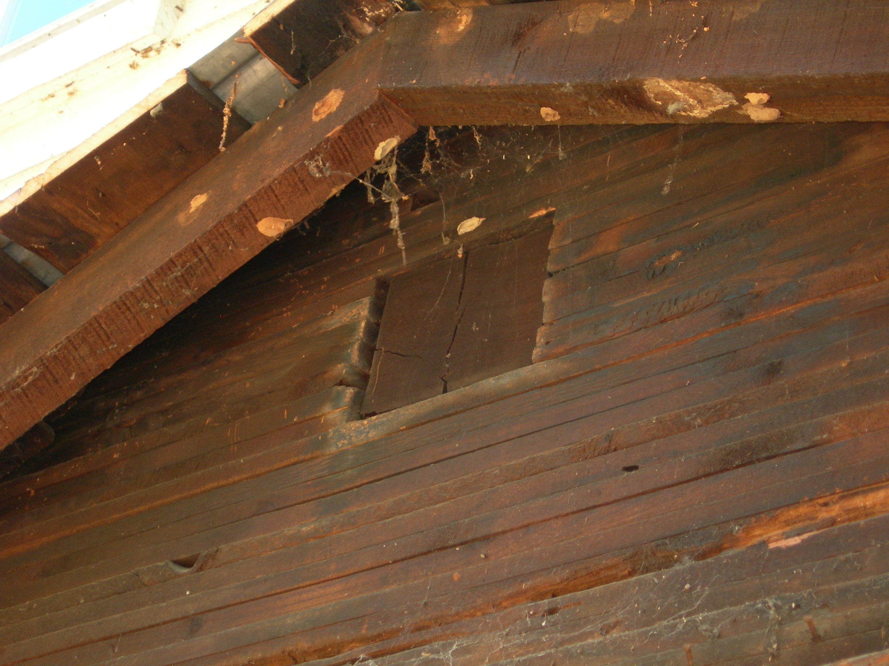 Support beam second floor joist exposed during rennovation